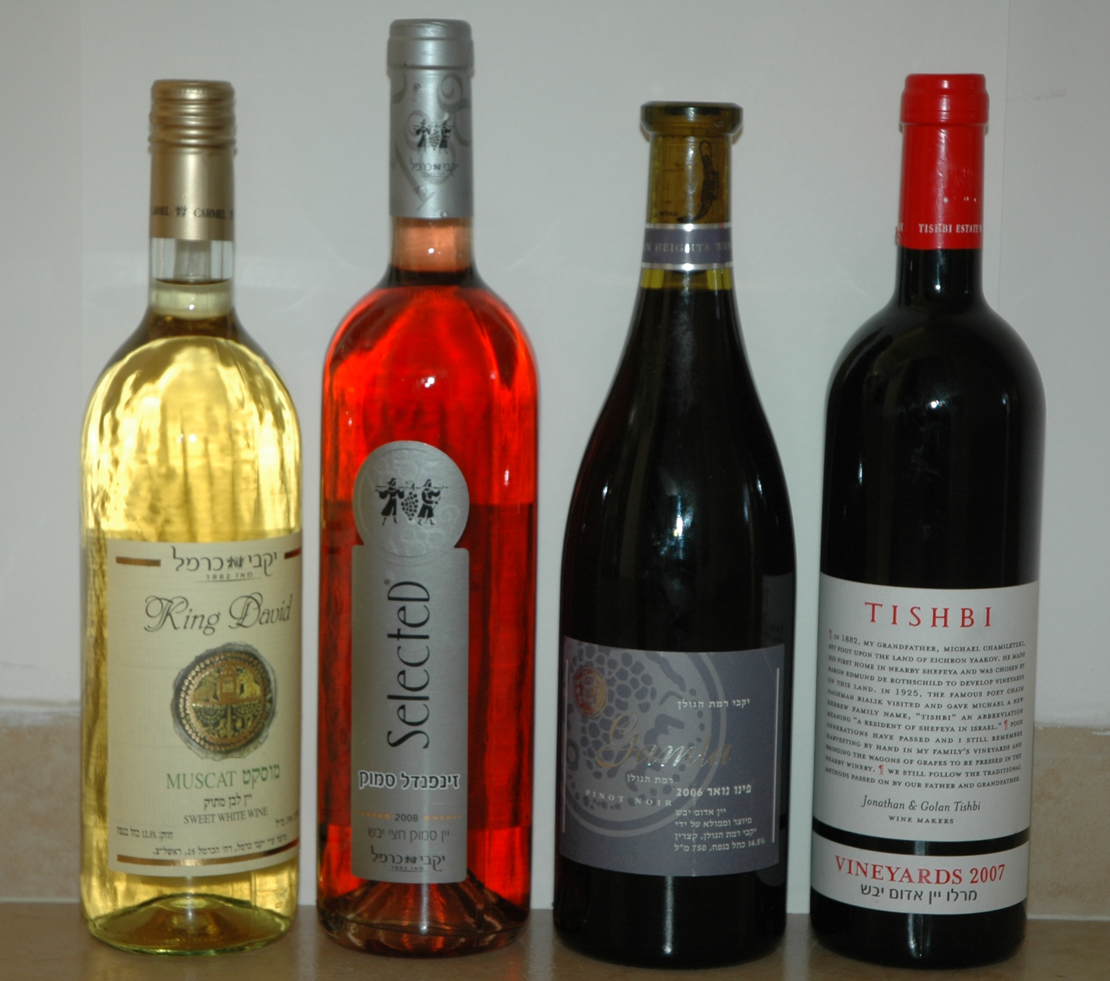 Bottles of Israeli wine